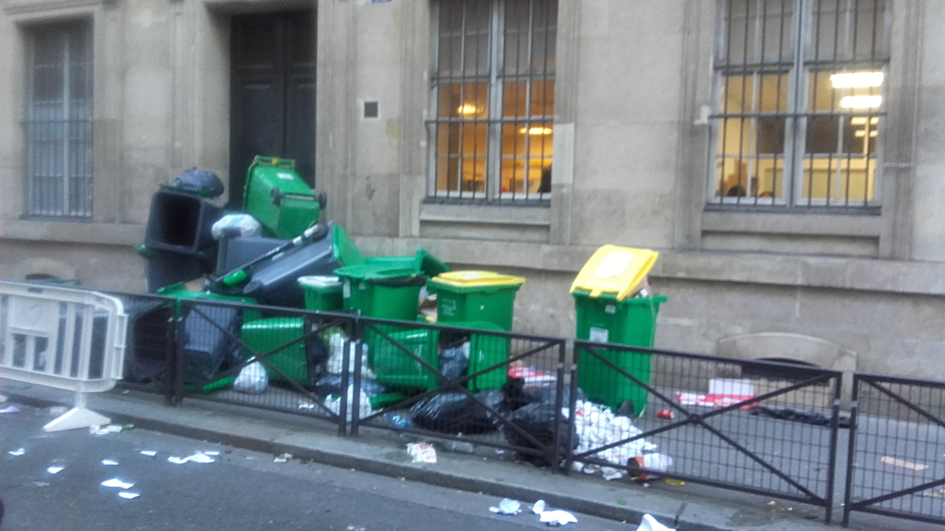 Manifestation contre le Bac Blanquer-Lycée Jacques Monod